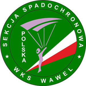 the parachuting section of the Military Sport Club "Wawel" Krakow